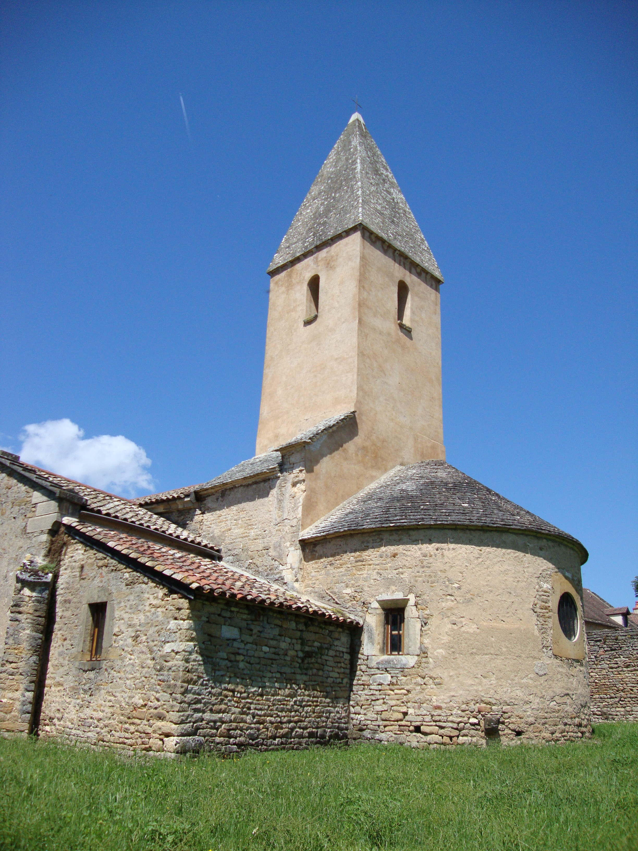 Saint-Vallerin (Saône-et-Loire, Fr) church